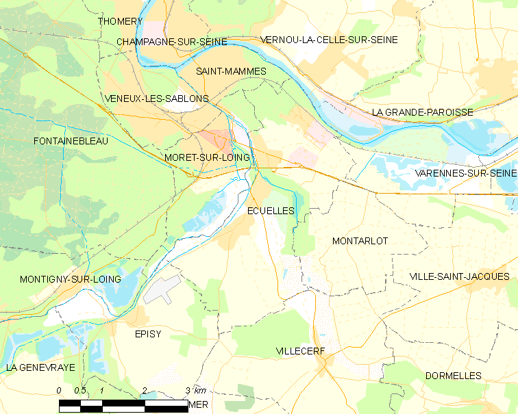 Map of French municipality Écuelles